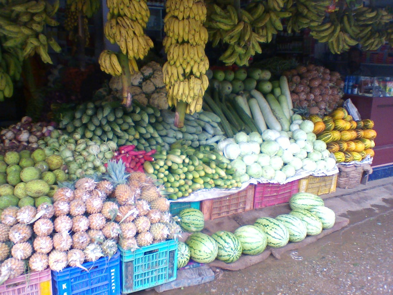 Vegetable Shop in Meppadi, Wayanad District, Kerala, India.